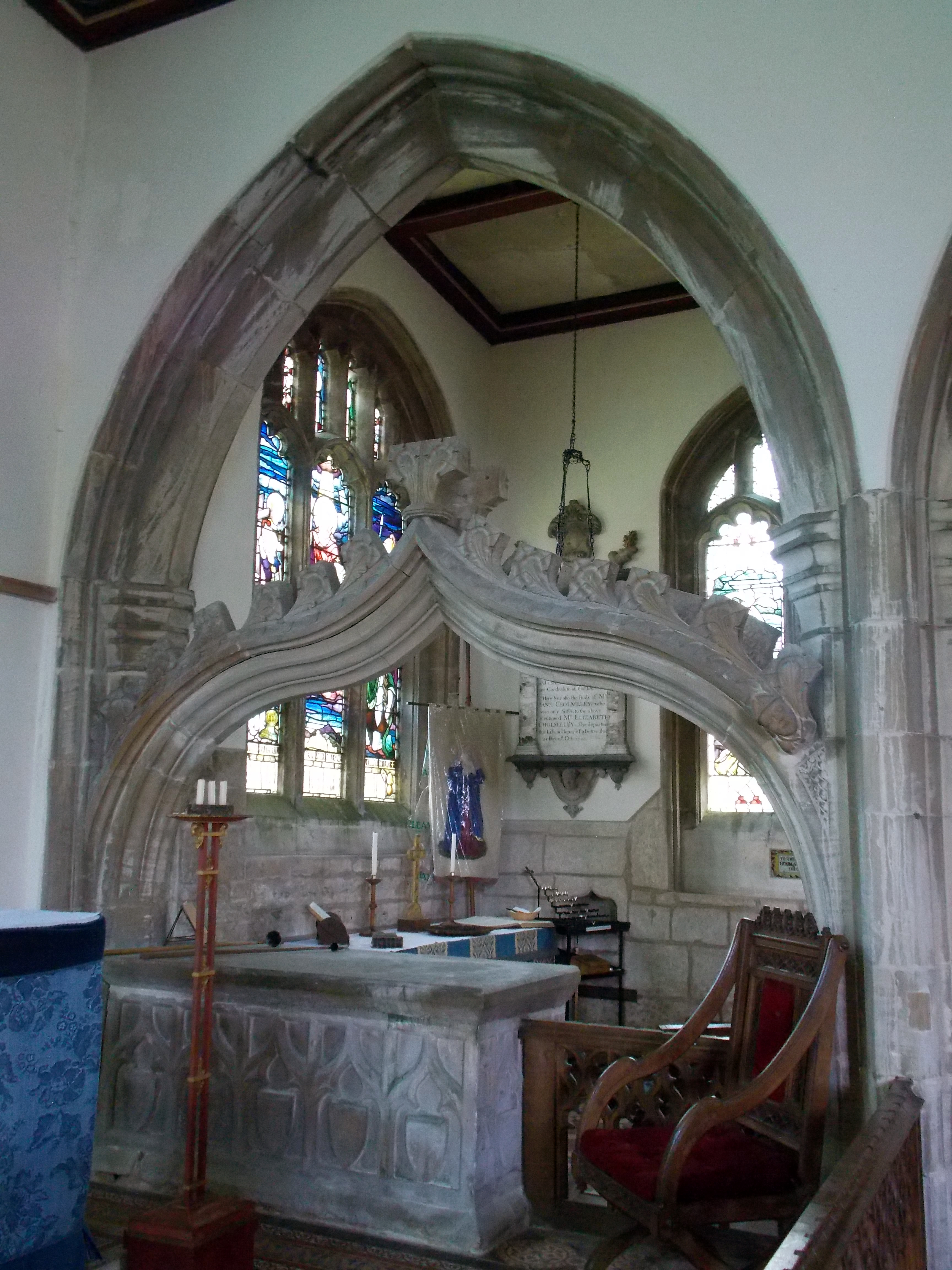 Stoke Rochford Ss Andrew & Mary, interior - east arcade bay between the chancel and south chapel